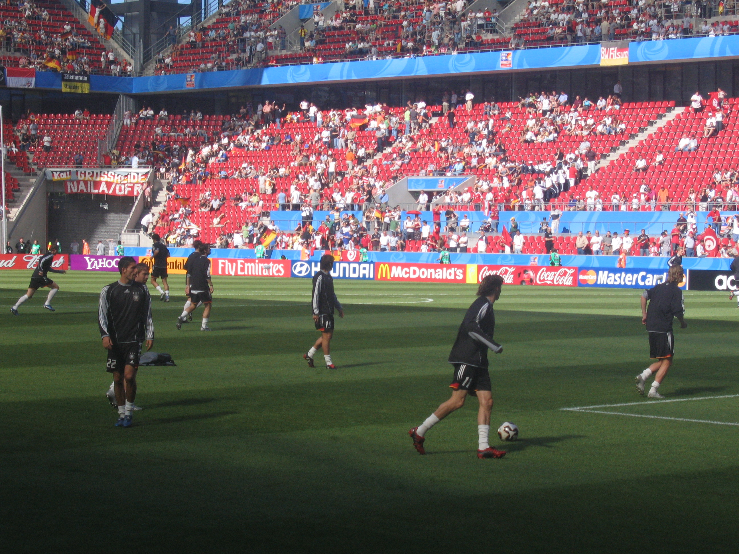 The football team of Germany while warming up before the match against Tunisia during the Confederations Cup 2005